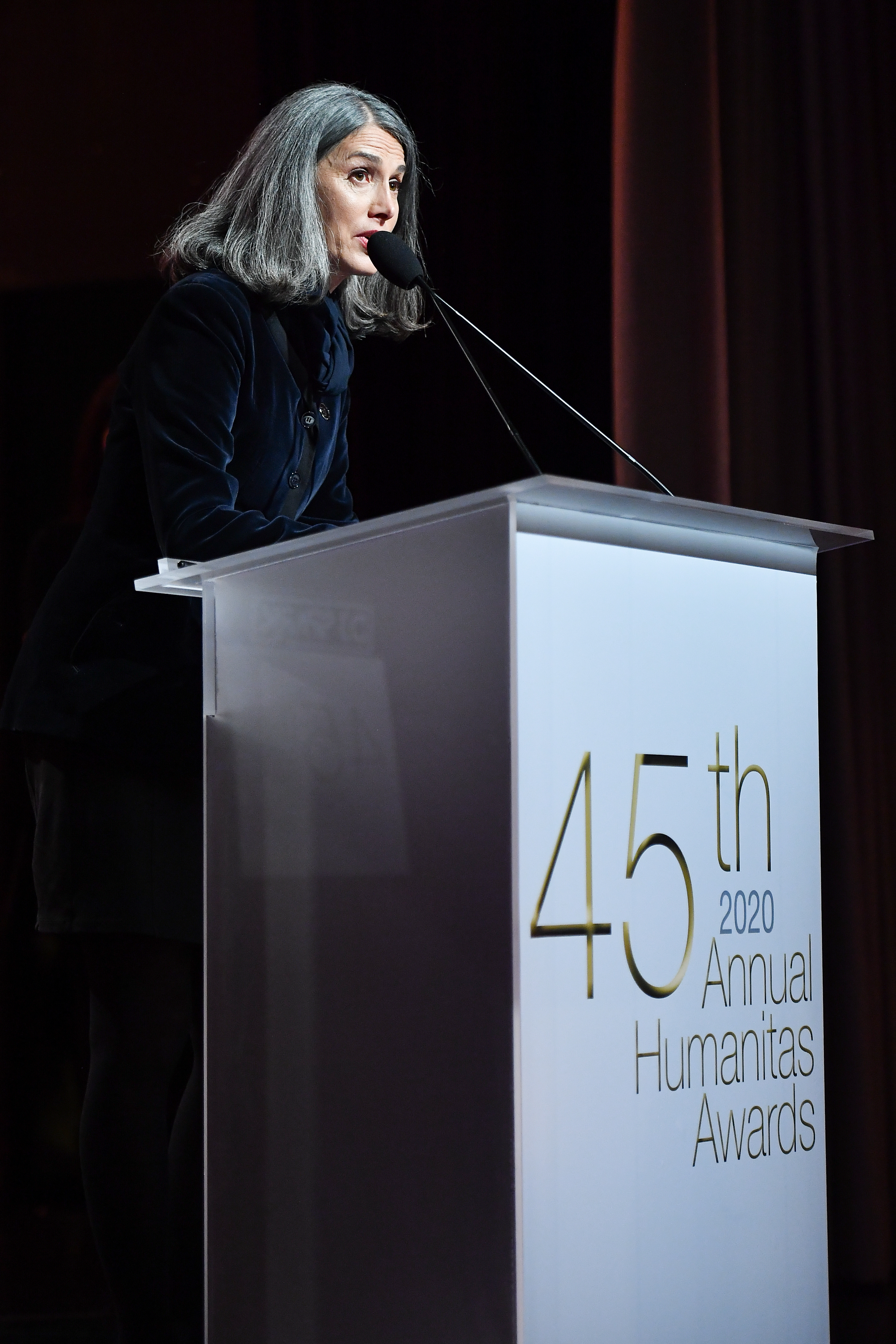 Christine Leunens at The Annual HUMANITAS Awards, 2020.